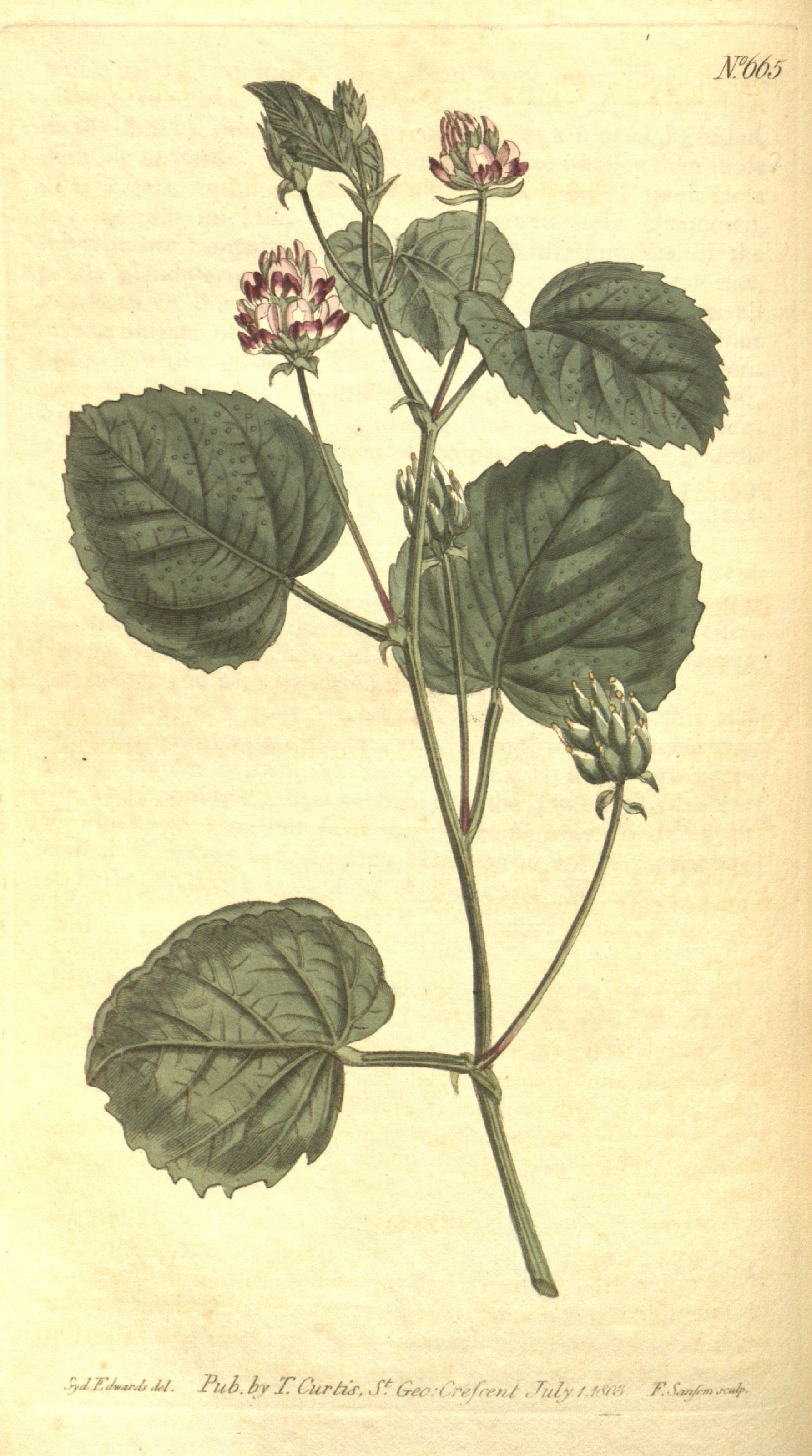 Mfo SfJZ'MmrU JU Pnb. hv T. 'Curtis